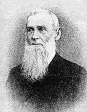 Calvin Wilson Matteer (Chinese name: 狄考文) (1836–1908)